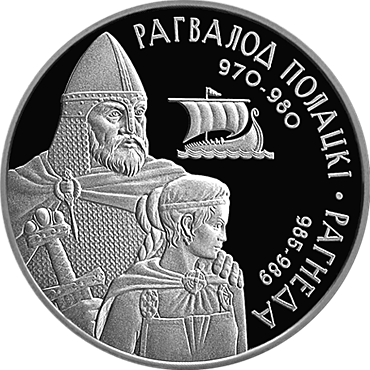 "Rogvolod of Polotsk and Rogneda" Silver commemorative coins, denomination: 20 rubles Беларуская (тарашкевіца): Беларуская срэбраная манэта "Рагвалод Полацкі і Рагнедаі" рэверс